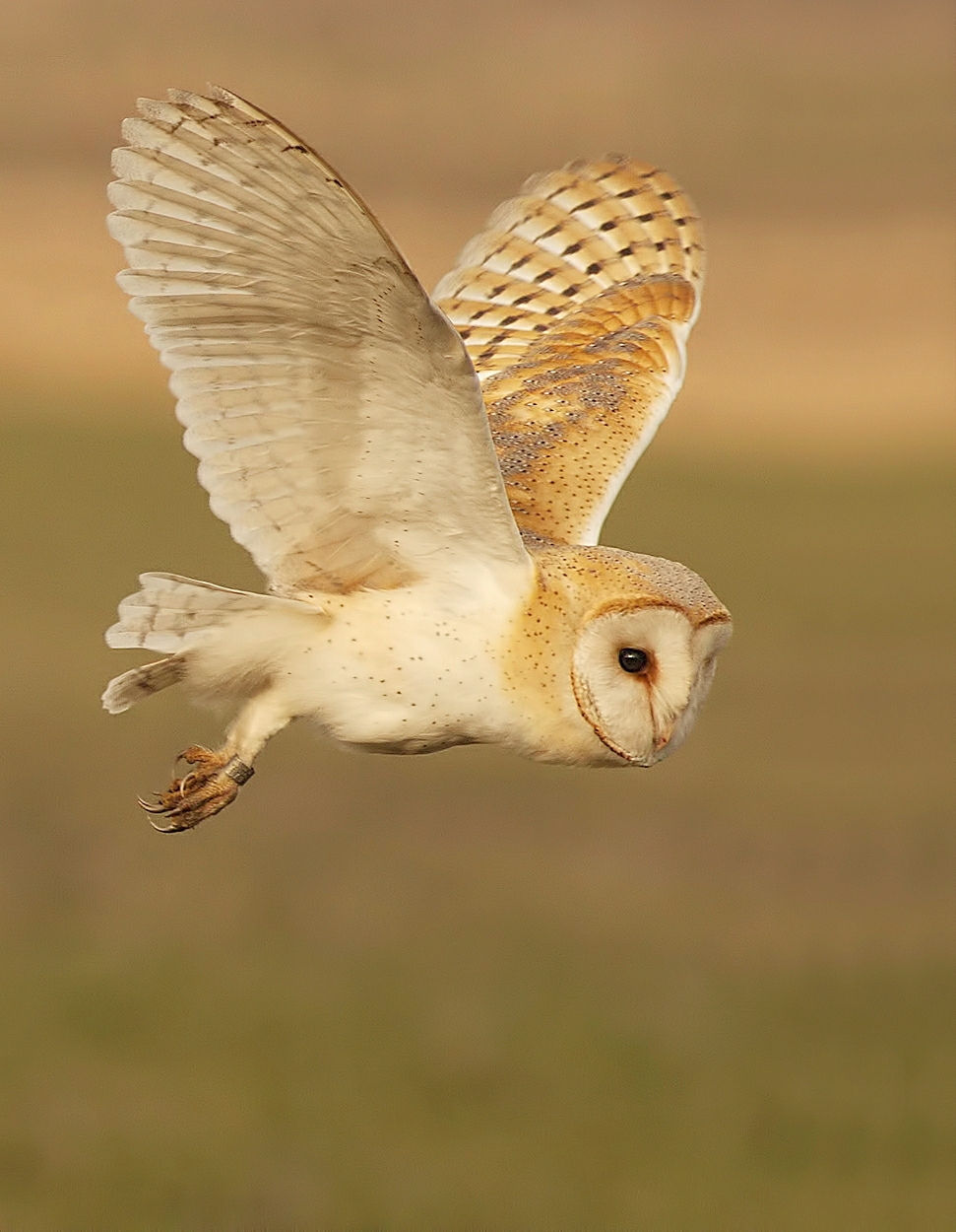 Funny evening tonight had my closest encounters with a Barn Owl but have no kit at the moment as its at Canon. My friend lent me his 50D and 400mm 5.6L but failed to tell me the shutter button is broken and the lens was 10 out on the MA. As Its his sons kit. I was pressing the shutter and it would start shooting 3 seconds later. ( he was laughing his skull off ) So missed most of the gorgeous full frame hovering shots lol got tons of blurred full frame images But still managed to have a great laugh. The funny thing was he only told me the shutter button was broken after the owl had gone. Anyway thanks for lending us the contraption Dave lol ... And i look forward to all your gorgeous shots LOL Managed one or two sharp images anyway .....